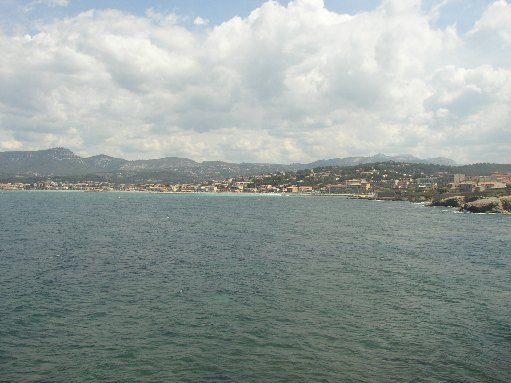 Sight of the city of Six-Fours-les-Plages, in Var (south-east of France).